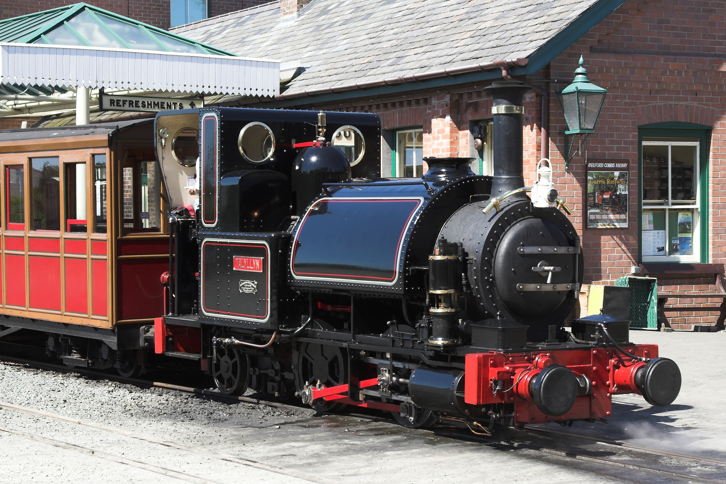 Talyllyn Railway No. 1 Talyllyn at Tywyn Wharf station.